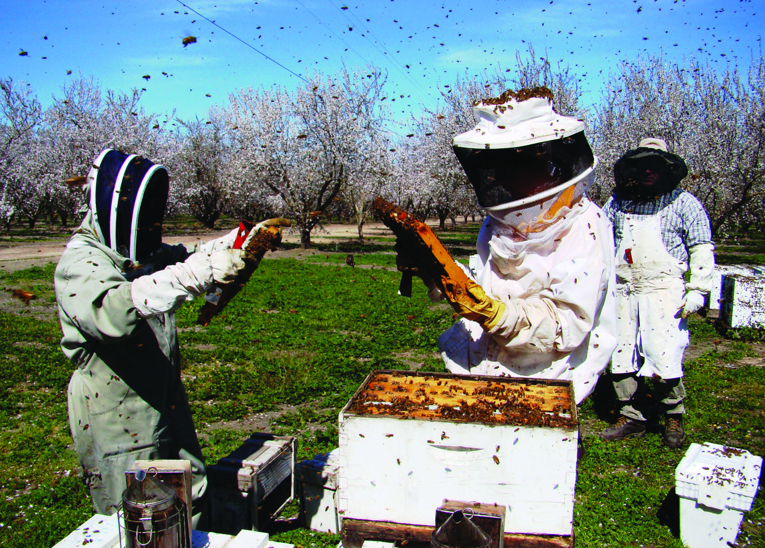 Image caption: "Beekeepers inspect their colonies in a California almond orchard. Photo by Louisa Hooven." Created for an article on pesticides.